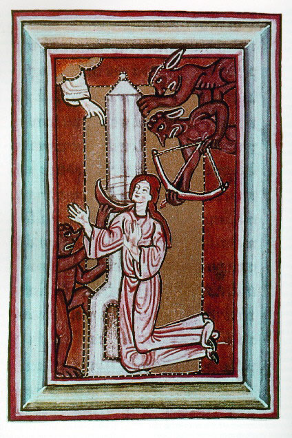 The human soul